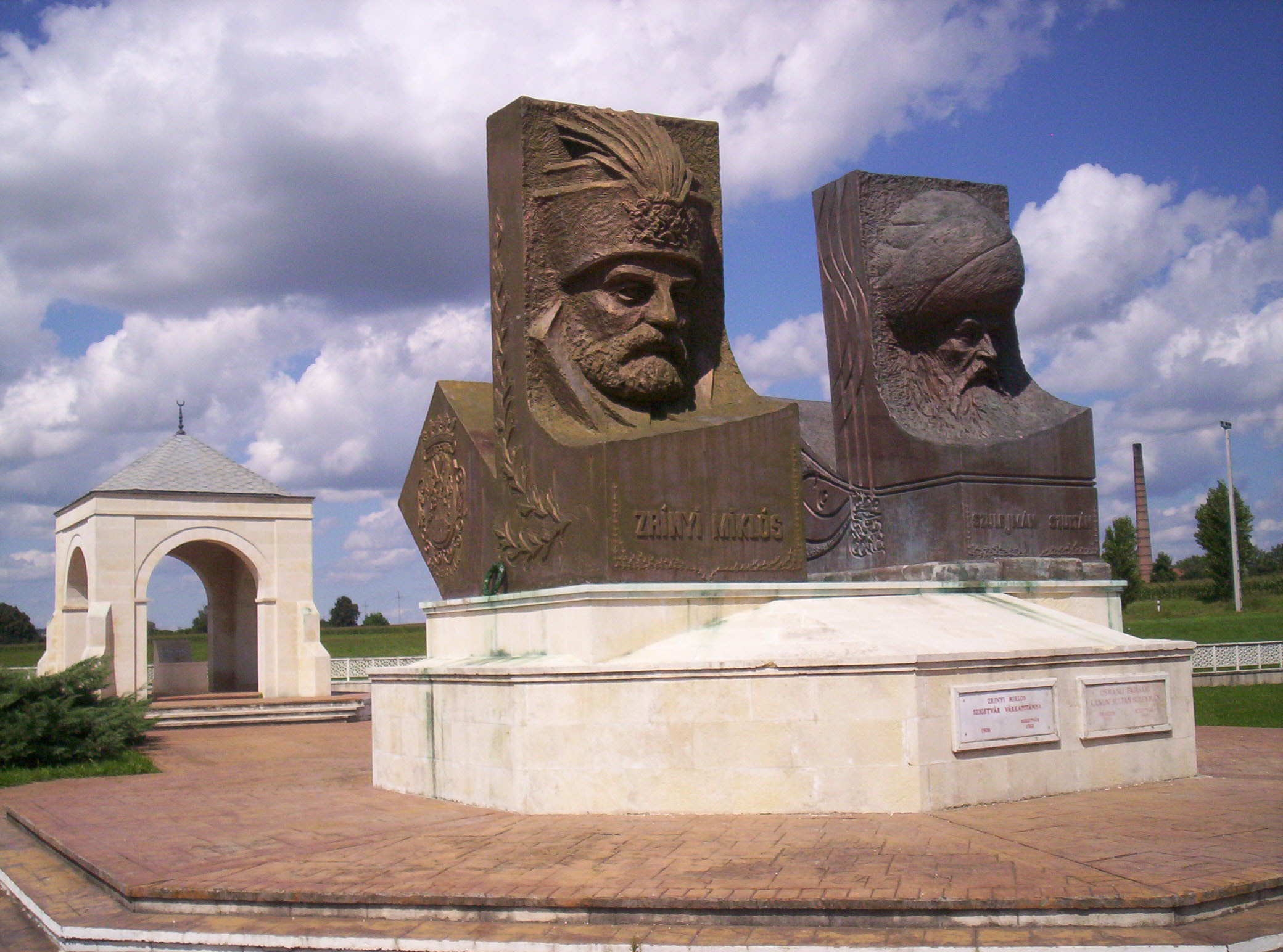 Park of Hungarian Turkish Friendship, Szigetvár